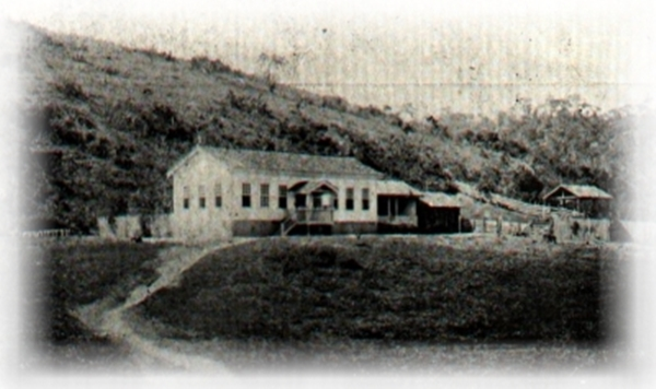 Fazenda Santo Antônio, propriety of Venâncio José Garcia, founder of Itaperuna